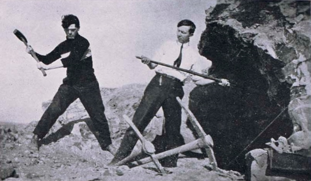 Mr. John Backey (right), Manual Training teacher at Sturgeon Bay High School, demonstrates the use of the chisel during the 1915–1916 school year. Mr. Backey was a 1902 graduate of Brooklyn Trade School. The caption reads, "It's tough to be a teacher."